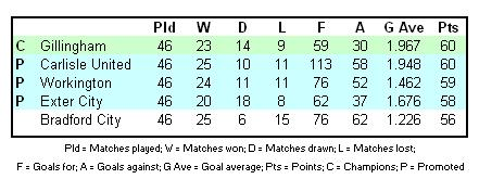 Football League Division 4 table from 1963-64, created by myself in Excel